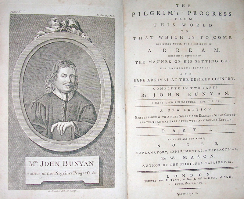 Engraving from The Pilgrim's Progress, published in London, 1778. This is the frontispiece and title-page.